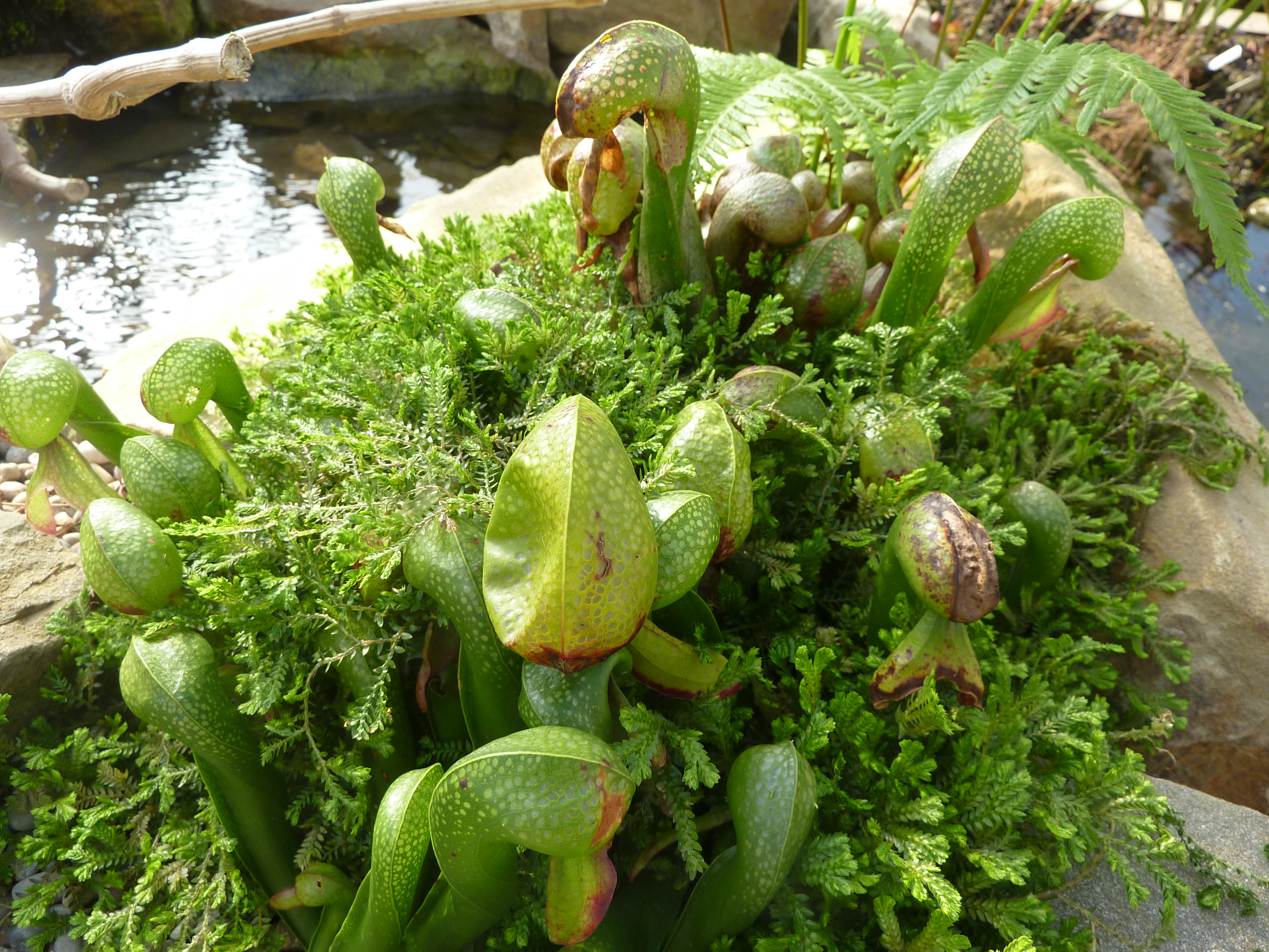 Taken in the Cambridge University Botanic Garden.